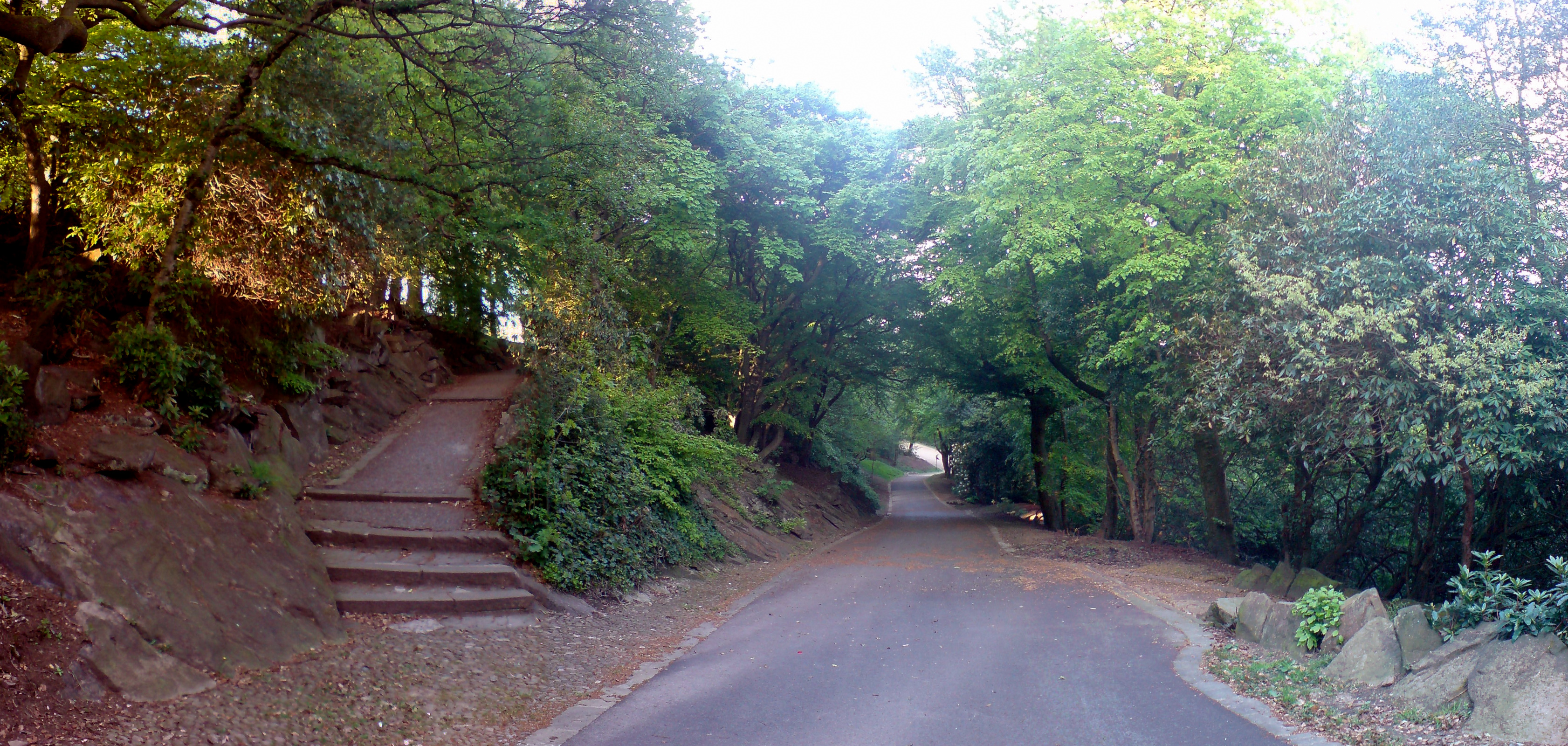 Pathway looking west to east above the broadwalk in Corporation Park, Blackburn